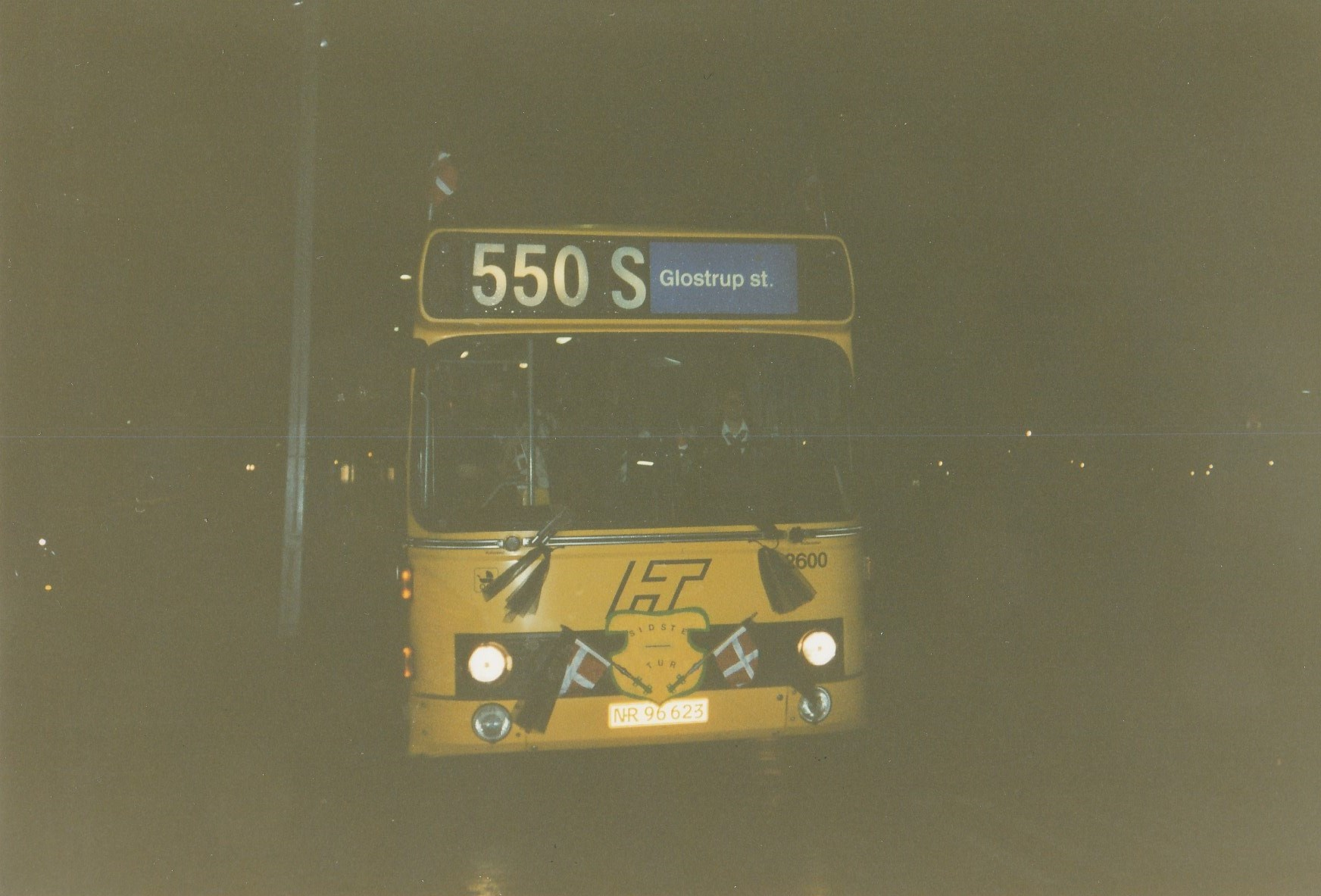 City-Trafik bus 2600 at the last HT bus line 550S at Christiansborg Slotsplads in Indre By in Copenhagen.